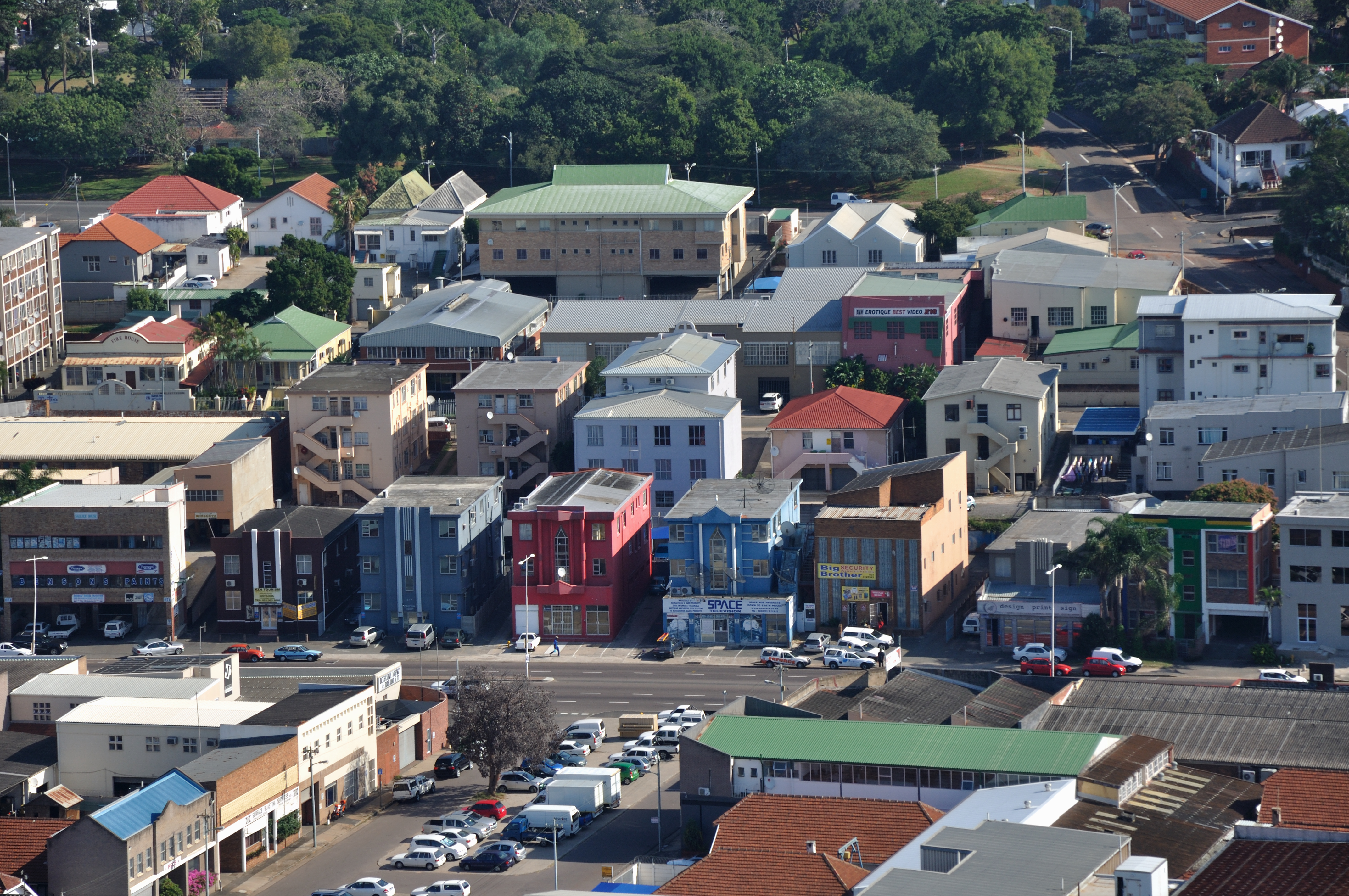 Retail area along Umgeni Road in Windermere, Durban, South Africa, as seen from the top of Moses Mabhida Stadion